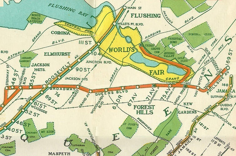 Part of a NYC subway map from 1939, showing the Queens Boulevarde line in orange, with the extension to the World's Fair site. The IRT/BMT Flushing line is shown in light orange and light blue, crossing the park.